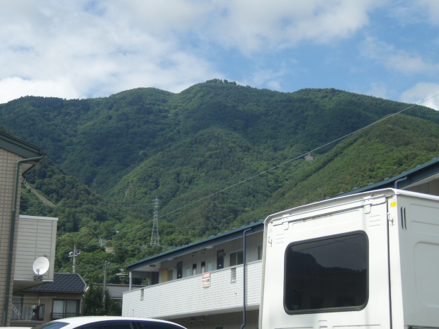 Mt.Tarou (Ueda-city,Nagano-Ken) Picture.